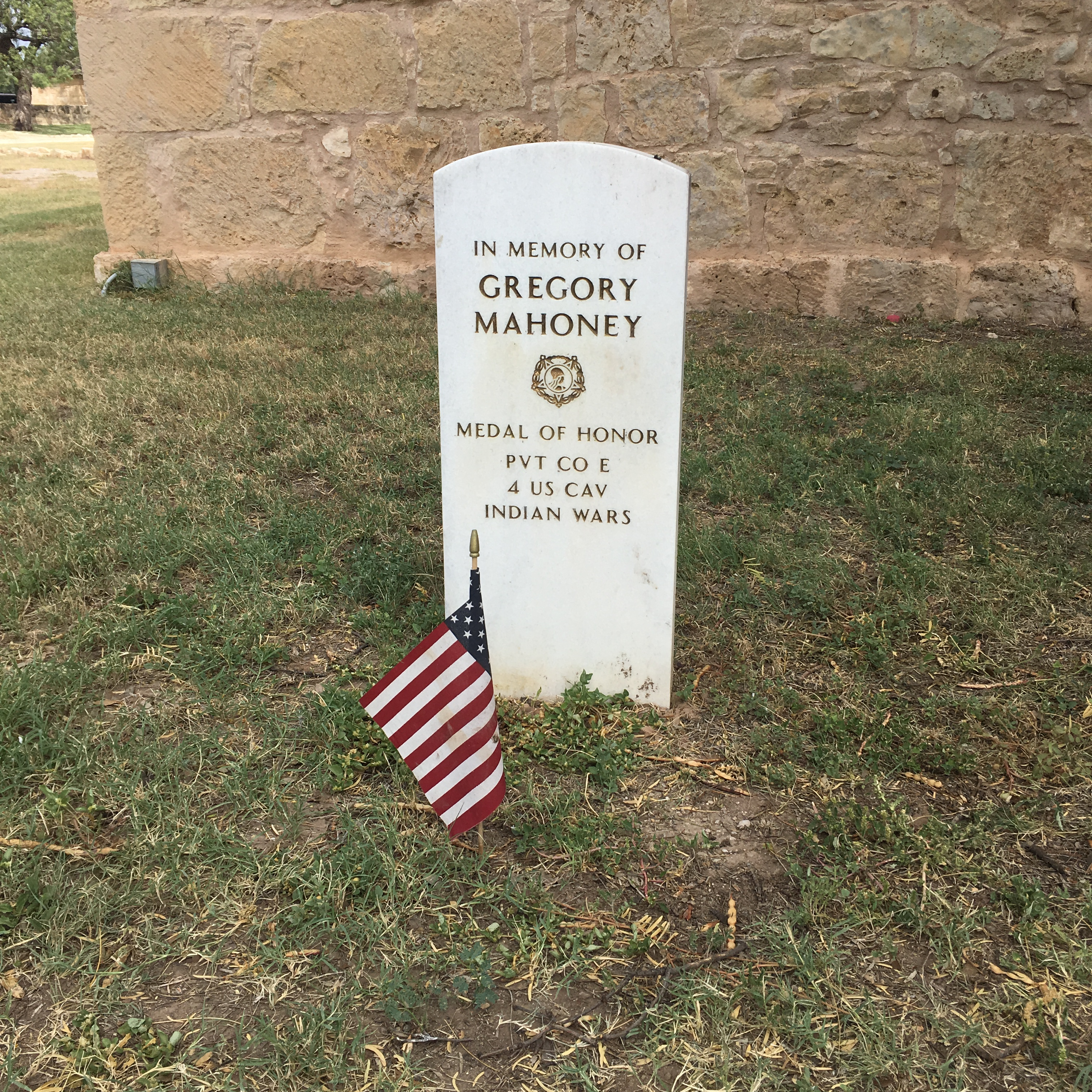 This is a memorial headstone located at Fort Concho, San Angelo, Texas dedicated to Gregory Mahoney, killed during the American Indian Wars. He posthumously received the Medal of Honor on 13 October 1875.